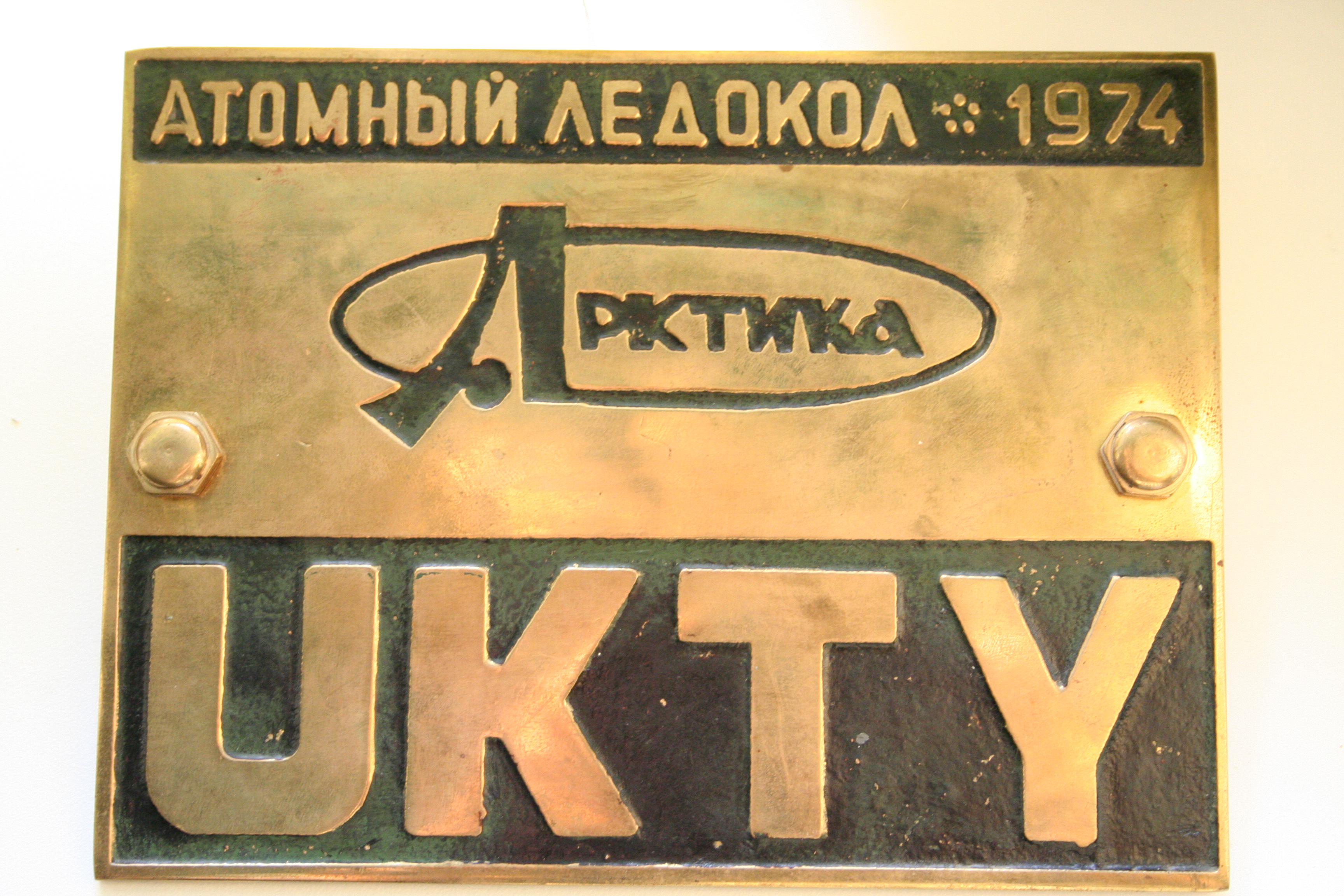 Cast-metal plate showing the radio call-sign "UKTY" assigned to the NS Arktika. The full text translates to "ATOMIC ICEBREAKER - 1974 - 'ARKTIKA' - UKTY".